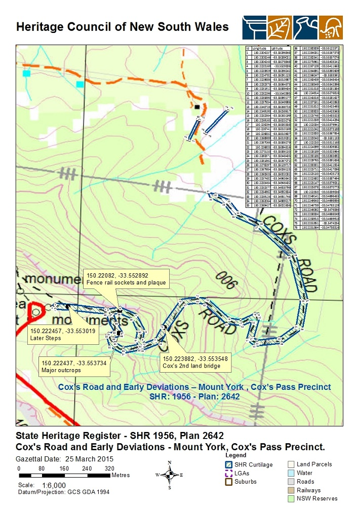 Cox's Road and Early Deviations - Mount York, Cox's Pass Precinct: SHR 1956. Heritage Council Plan 2642. Cox's Road and Early Deviations: Mount York, Cox's Pass Precinct - map view